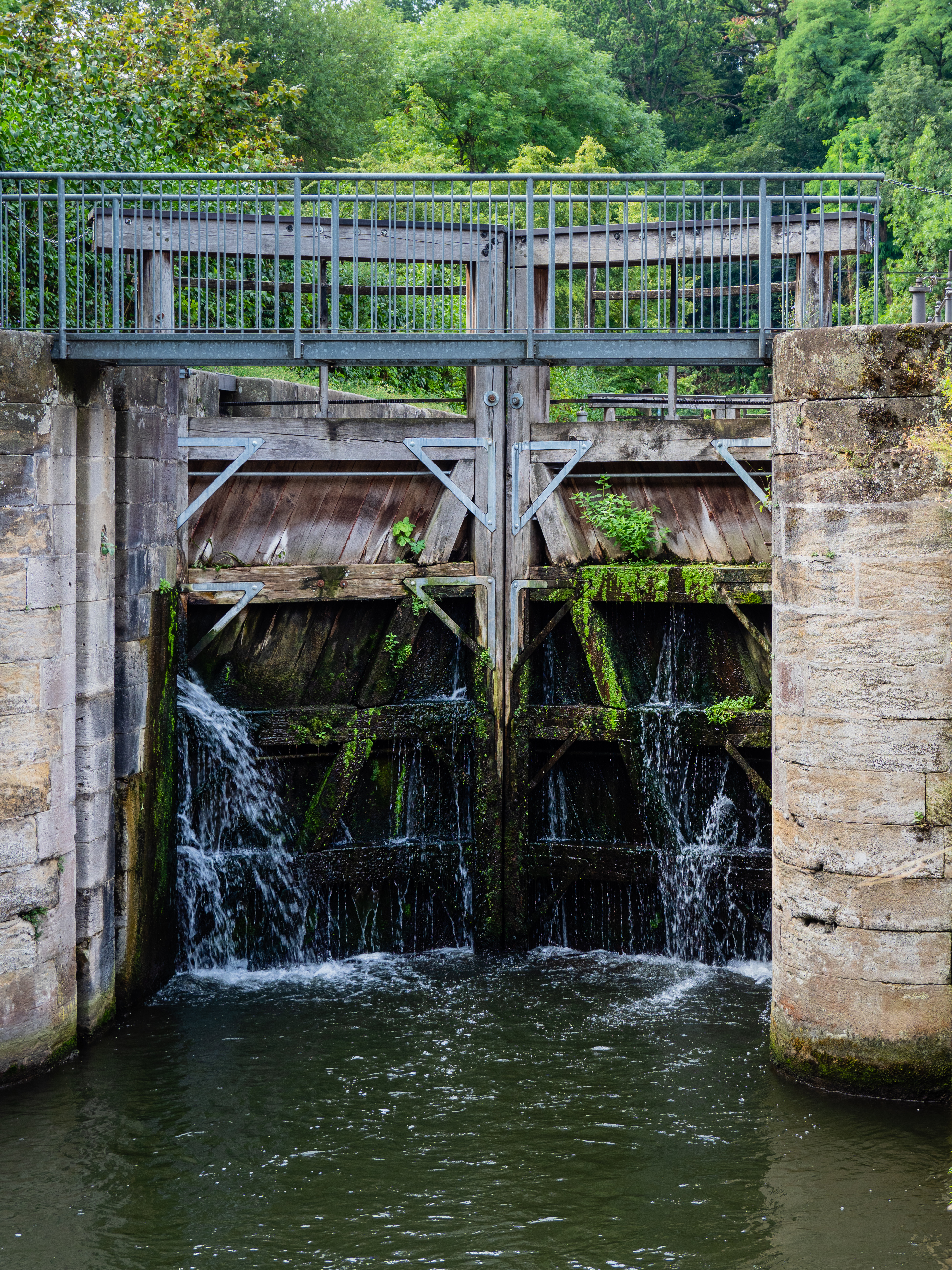 Gate of the lock 100 in Bamberg in the Ludwig-Danube-Main-Canal